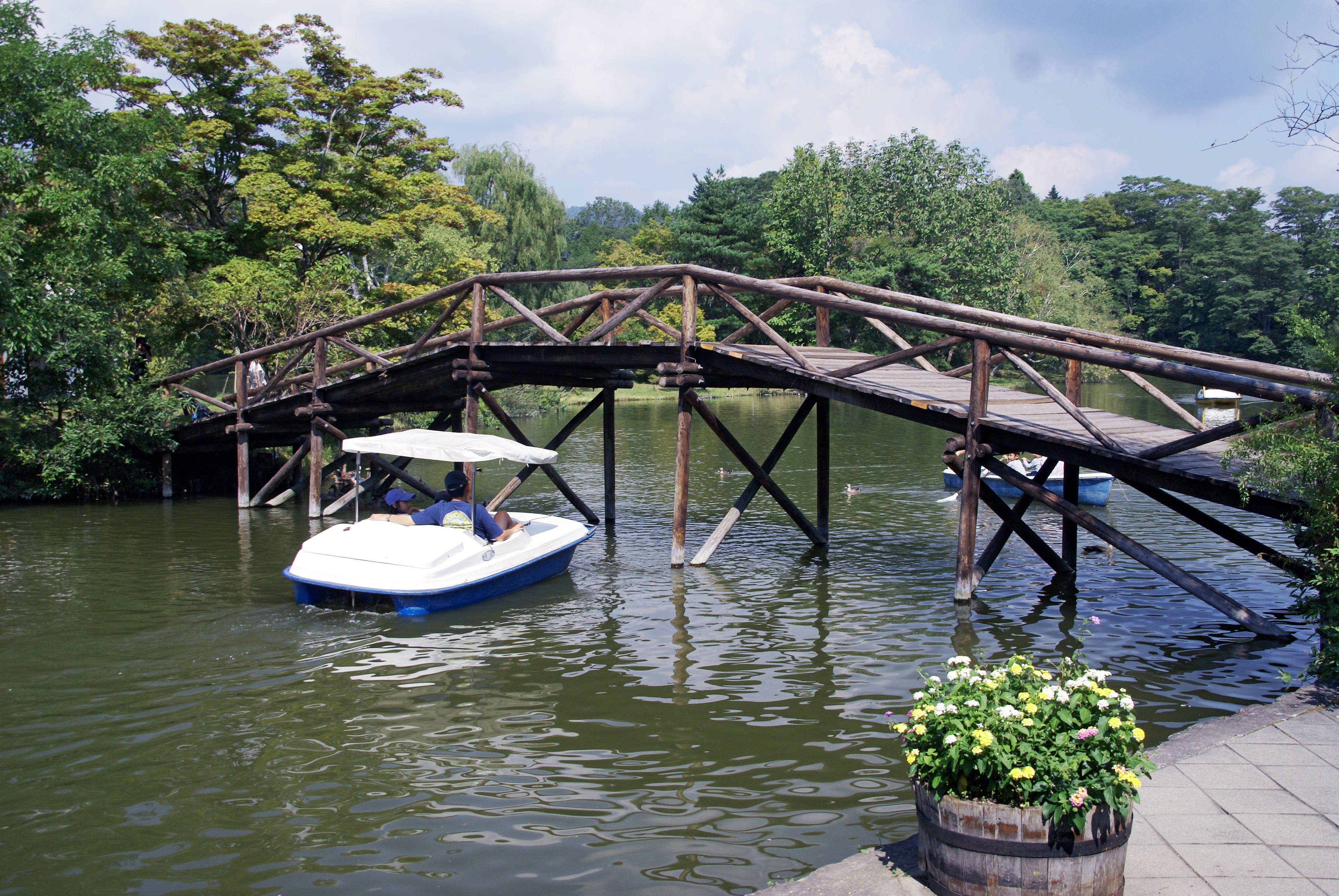 Karuizawa Taliesin in Karuizawa, Nagano prefecture, Japan